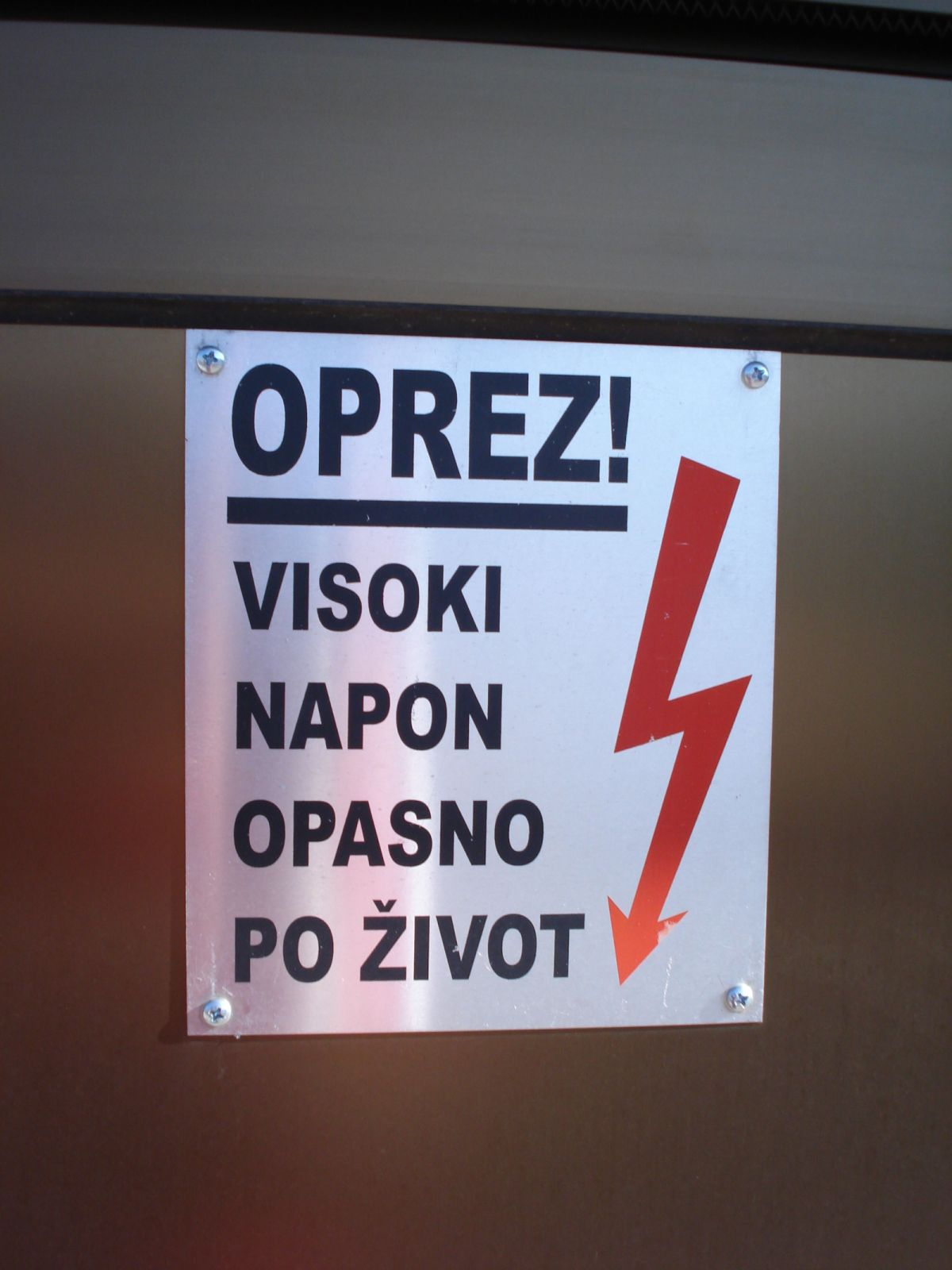 Electricity warning sign (in croatian).